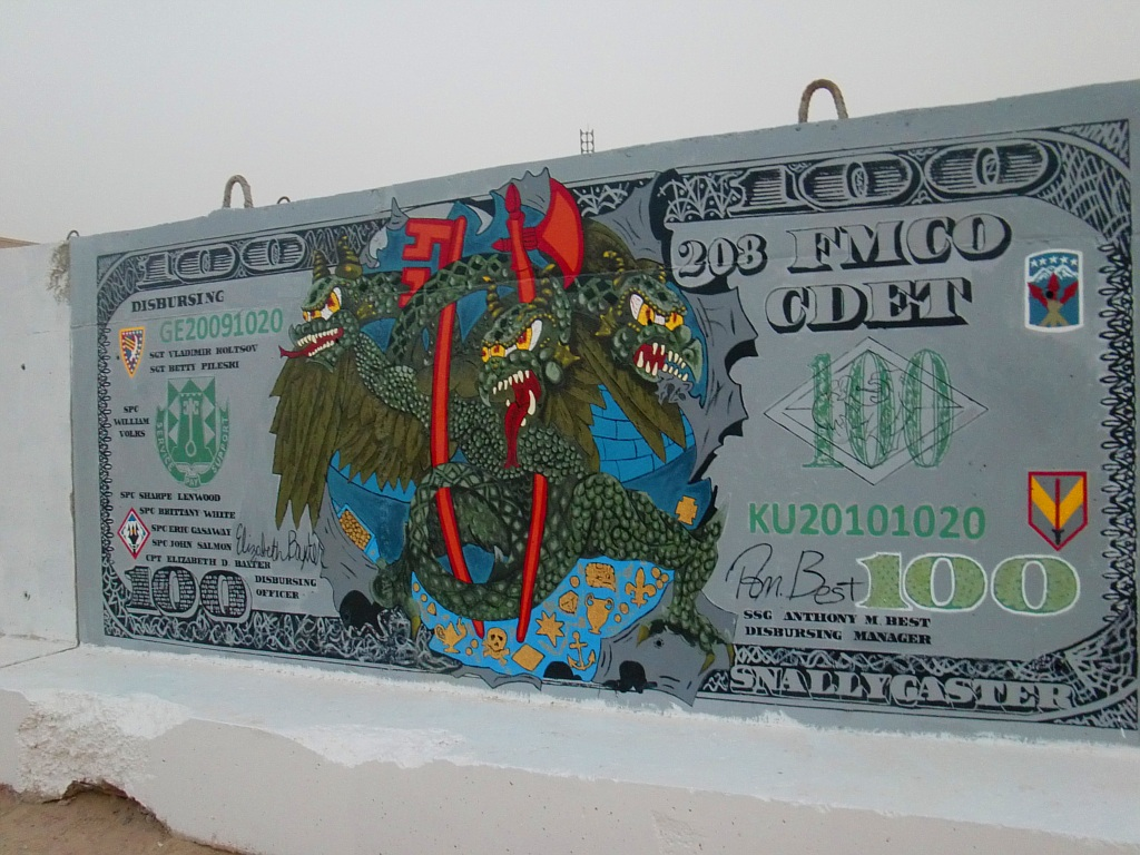 A photo I took of a three-headed Snallygaster depicted on a jersey barrier in Camp Buehring, Udairi, Kuwait.